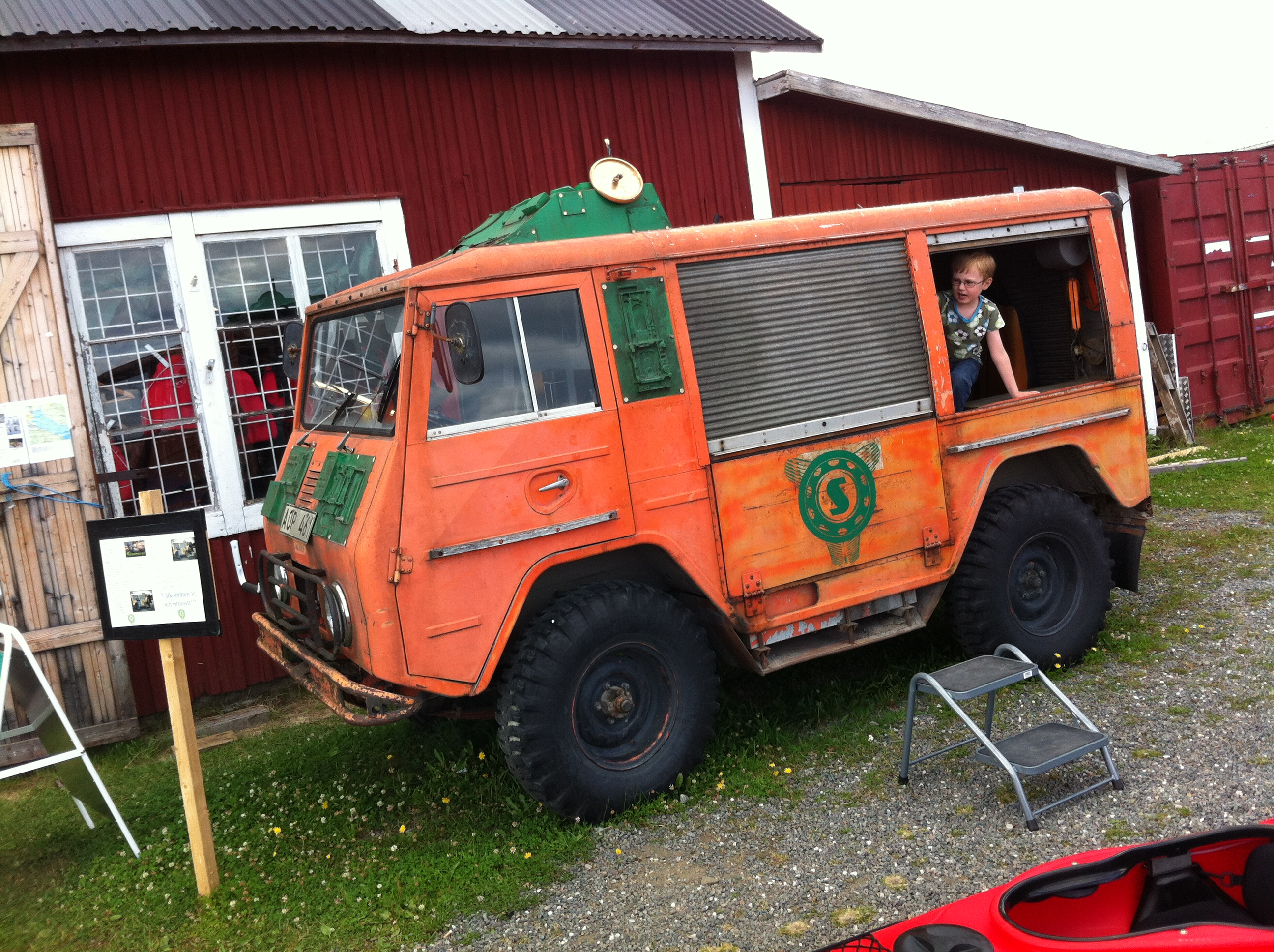 Birgit from Swedish TV series Skrotarna (SVT 2013).